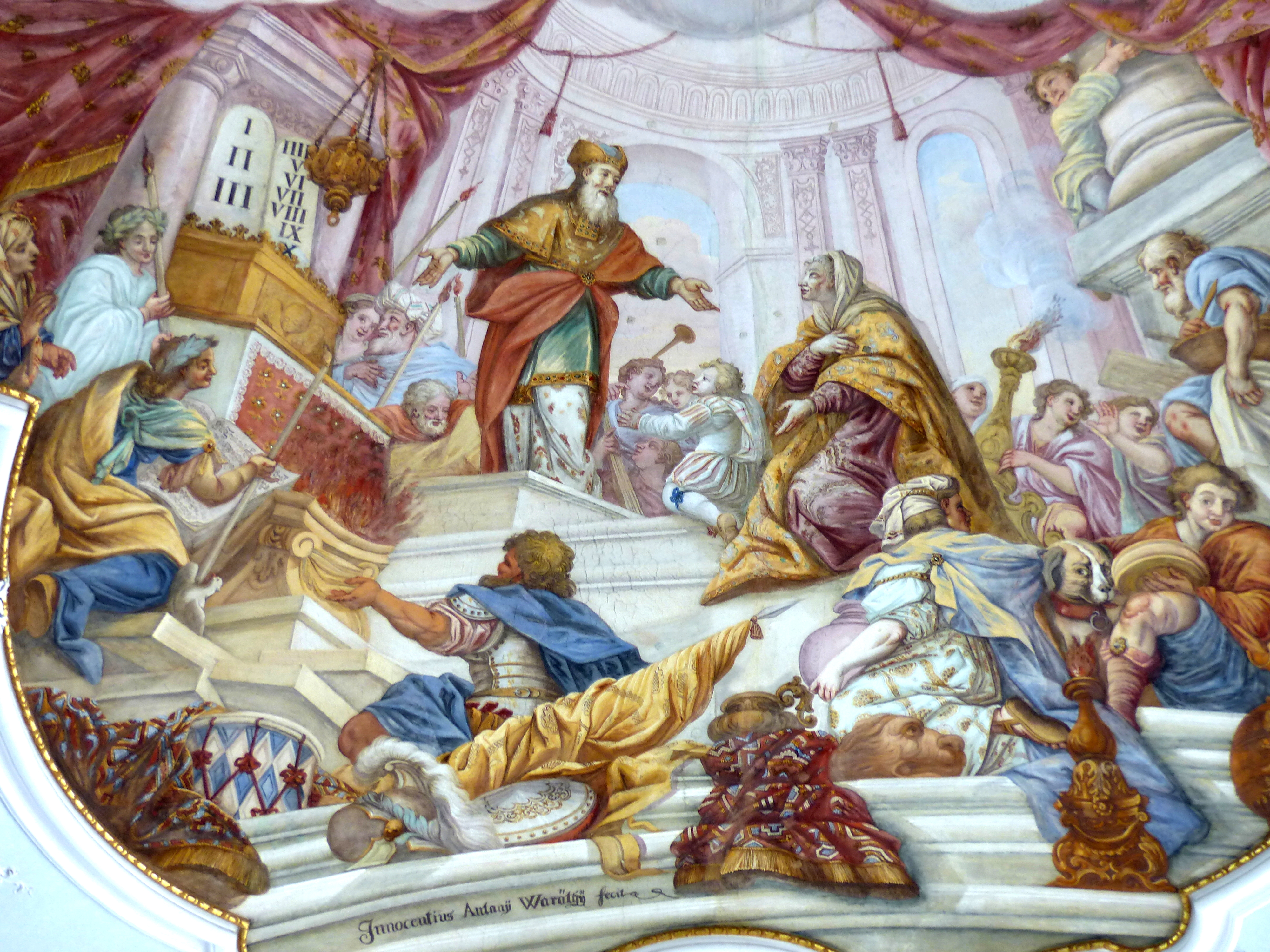 Vornbach ( Lower Bavaria ). Mary Assumption abbey church - Frerscos ( 1730 ) at the ceiling by Innozenz Anton Waräthi: Hannah presents her son Samuel to the temple ( detail )This is a photograph of an architectural monument.